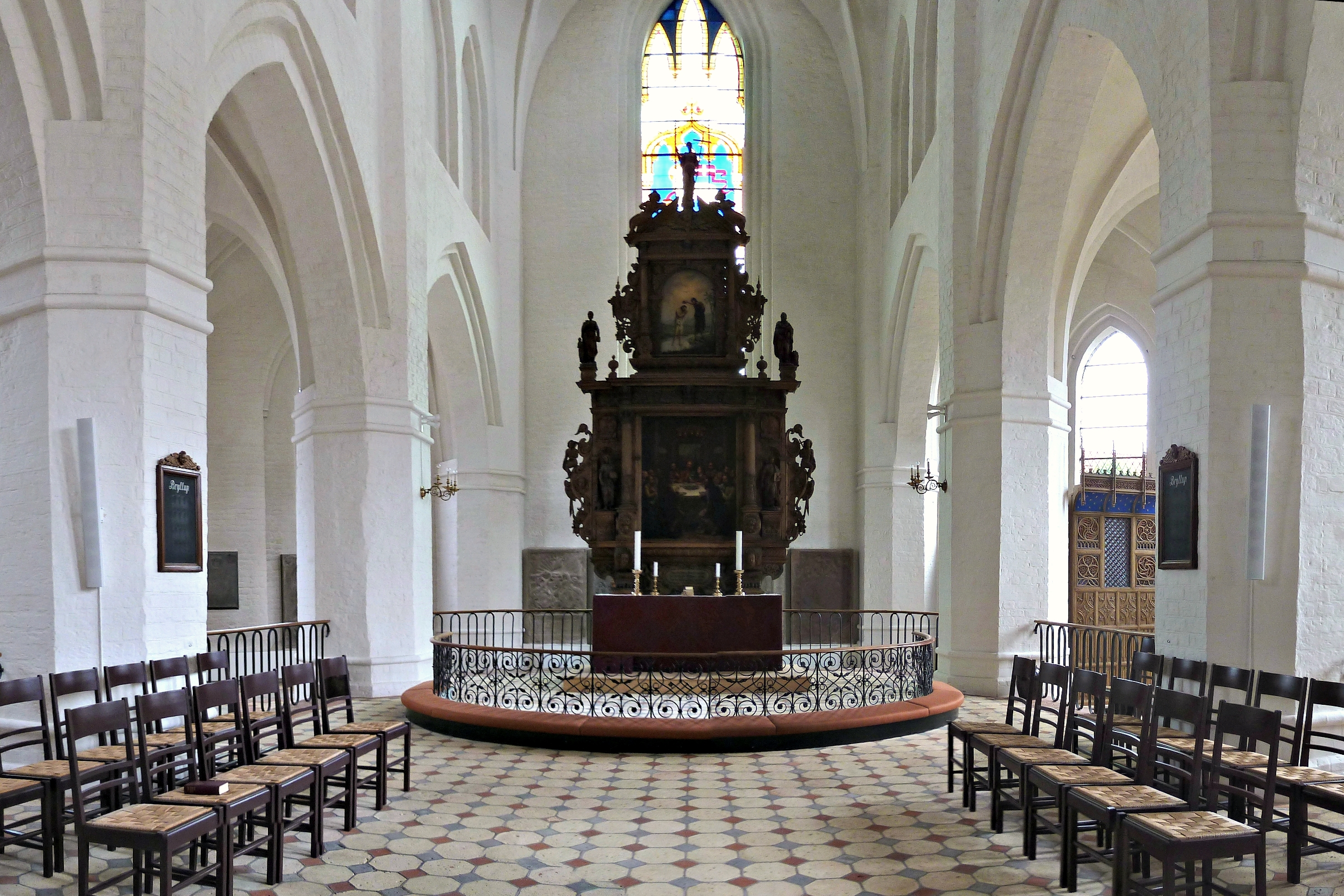 The altar at Church of Our Lady in Assens, Denmark